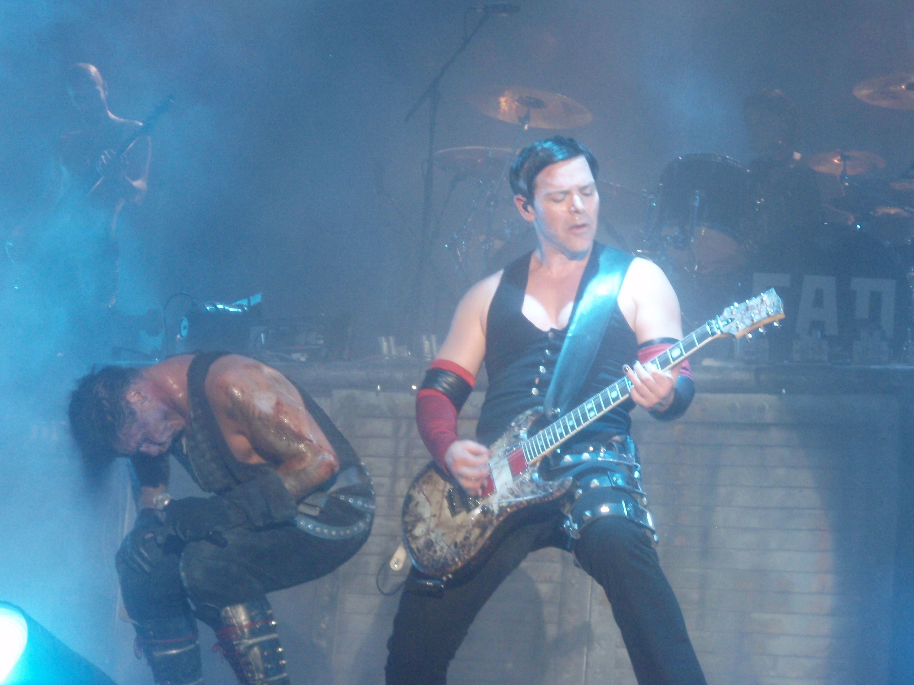 Kruspe performing with Rammstein at the Gold Coast Big Day Out in 2011.